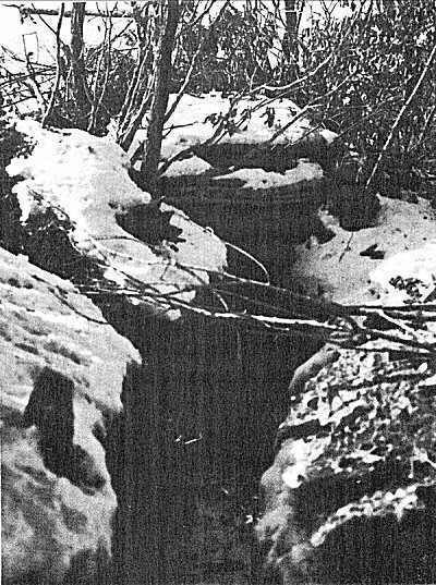 Chinese Bunker on the forward slope of Sniper Ridge, Triangle Hill Complex.